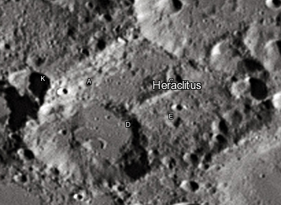 Heraclitus lunar crater as seen from Earth with satellite craters labeled